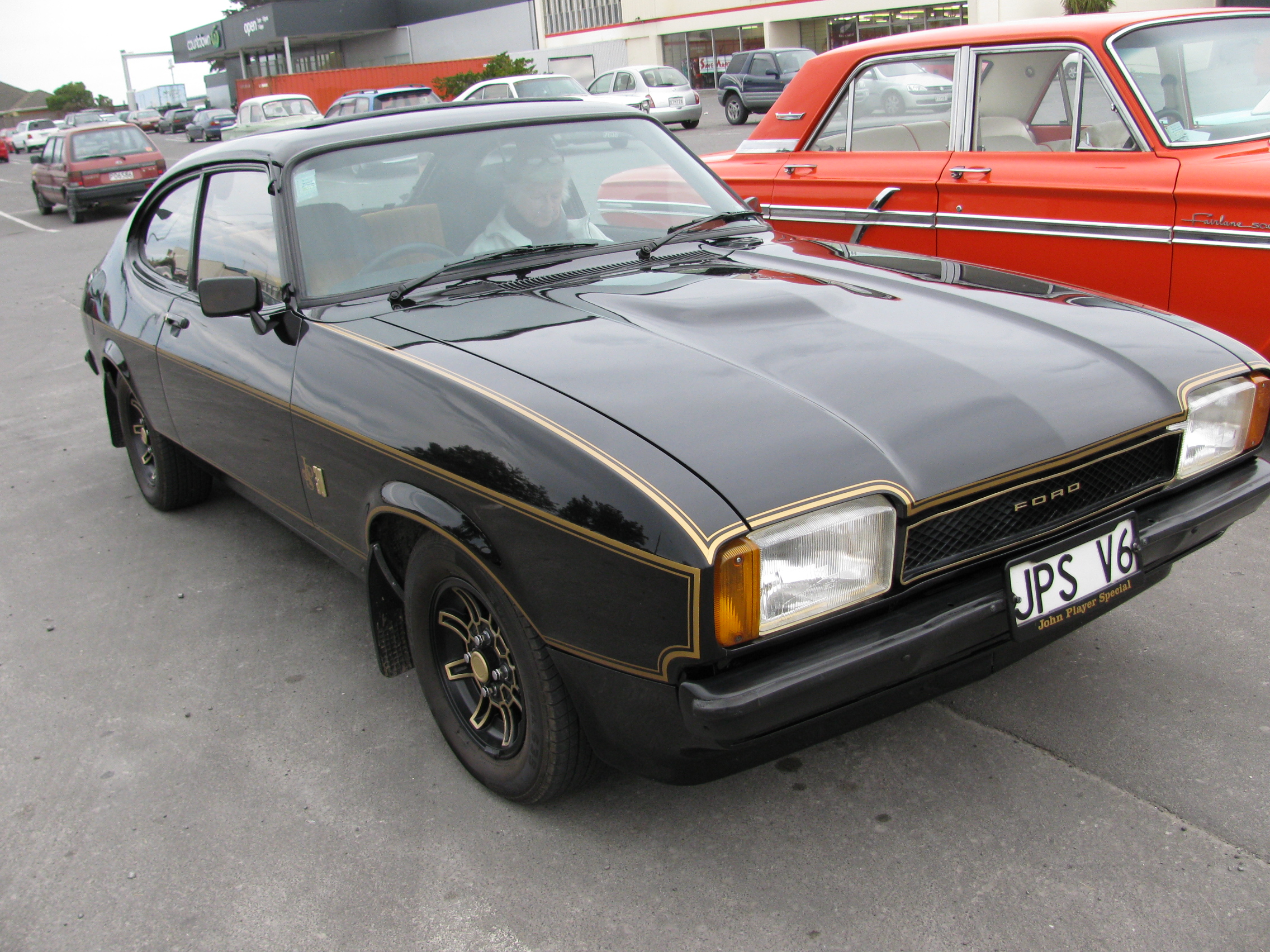 JPS V6 I had never seen one of these before this meet! For those who don't know, John Player & Sons was an English tobacco and cigarette manufacturer, who are now part of the Imperial Tobacco Group. They were well known amongst motorsport circles as they sponsored Lotus' Formula One team for a number of years. Other cars released with JPS special editions have been the Lotus Europa and Esprit, and also the BMW E30 323i, which was only offered in Australia as JPS sponsored BMW touring car racing there.